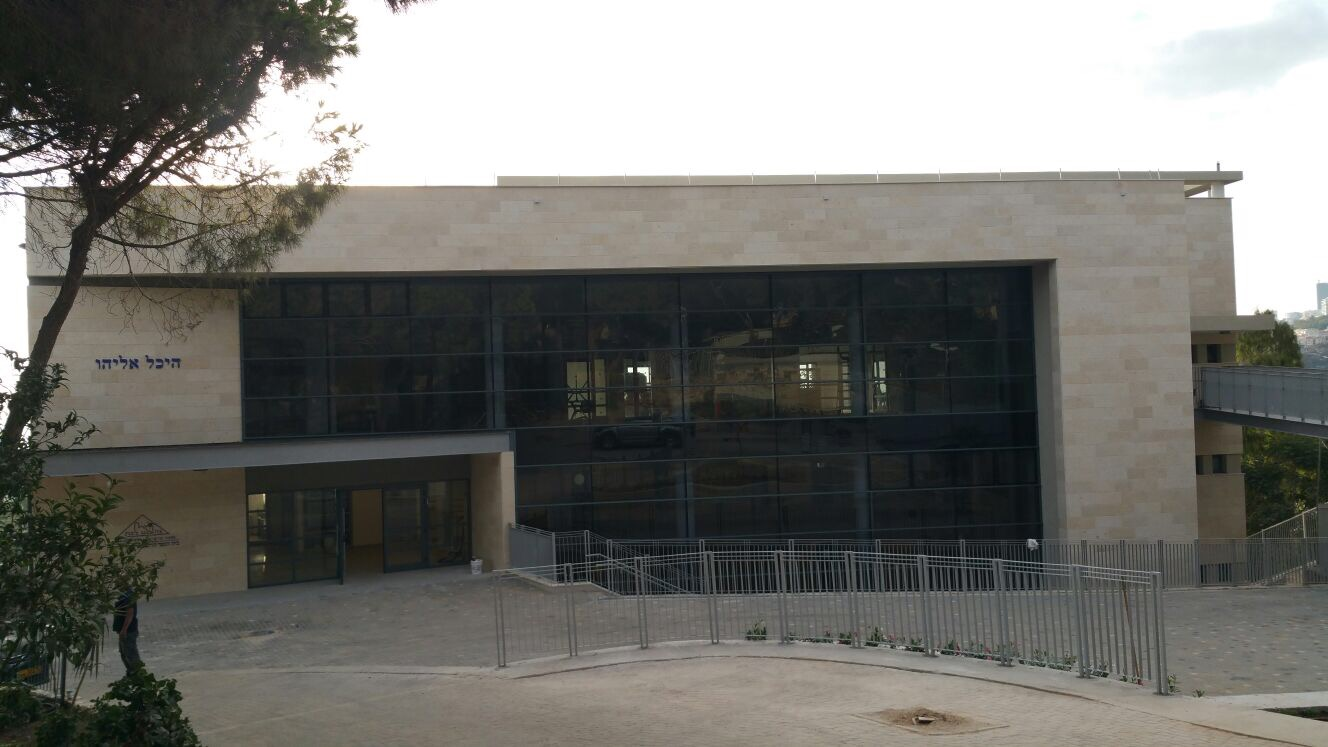 Eliyahu Building